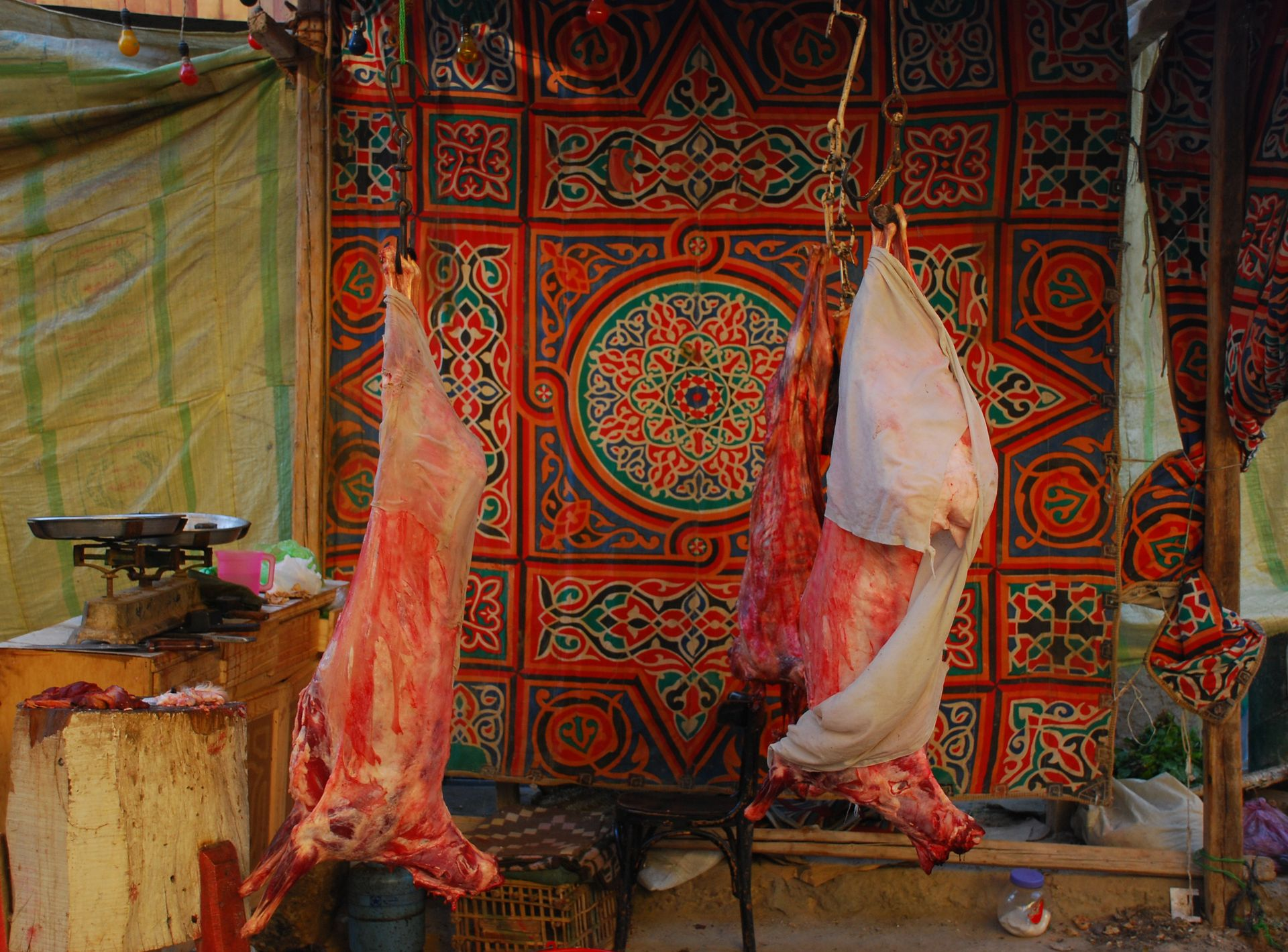 Selling meat at Id ul-Adha festival. El Minya, Egypt